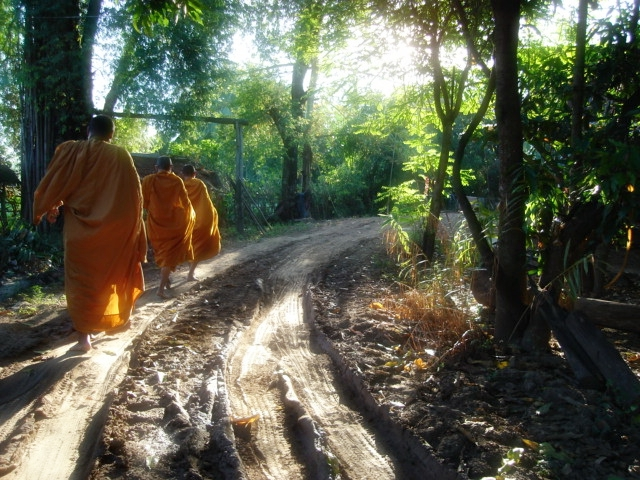 Buddhist monks Location: Phetchabun Thailand.